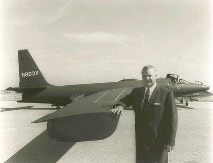 Kelly Johnson with an early variant of the U-2. Photo caption: Clarence L. "Kelly" Johnson, chief designer at Lockheed’s secret "Skunk Works" facility, initially designed the U-2 around the F-104 Starfighter fuselage. (U.S. Air Force photo)